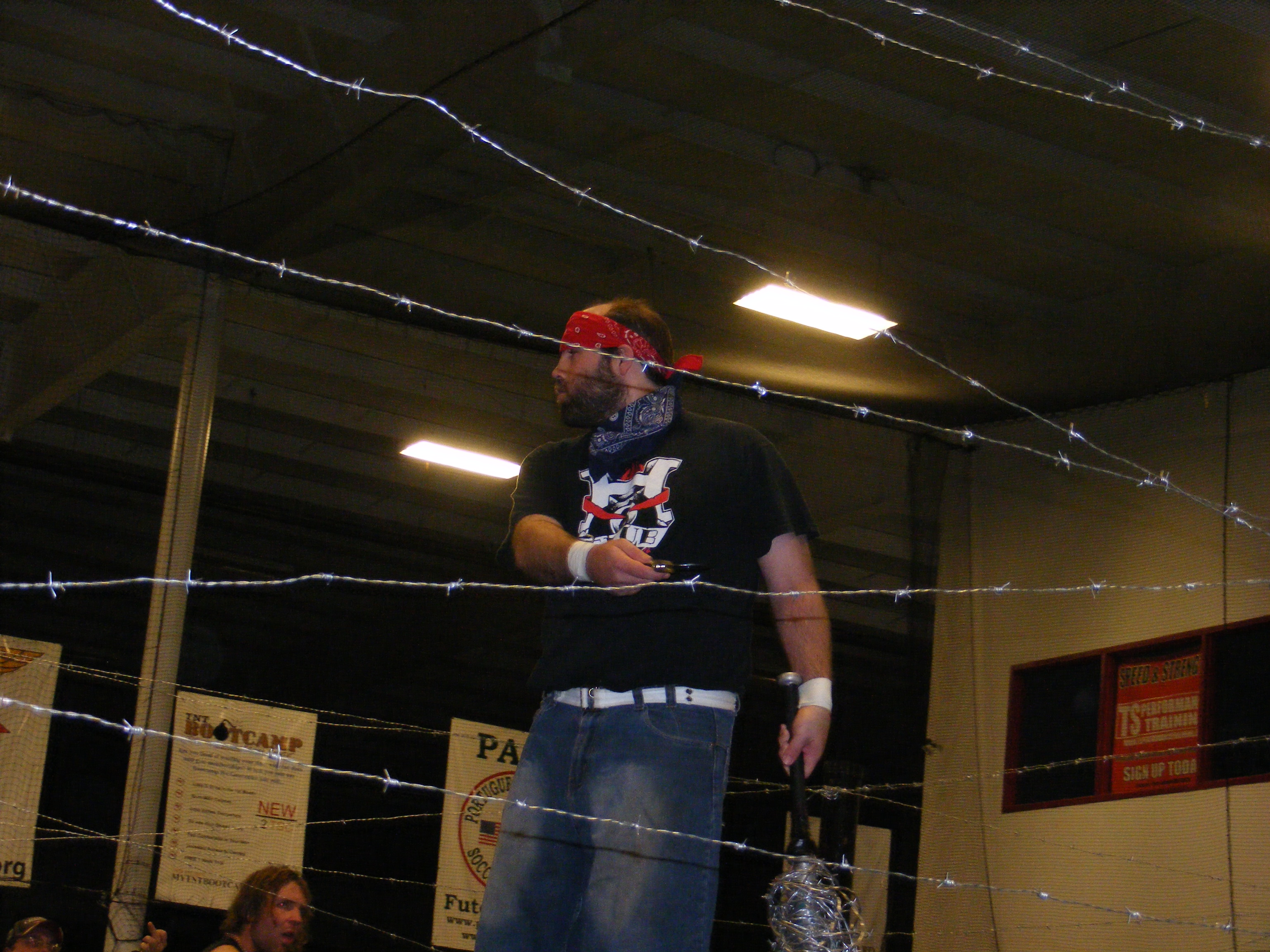 Nick Gage prior to a No Ropes Barbed Wire match at a Combat Zone Wrestling show in Tyngsboro, MA on October 16, 2010.